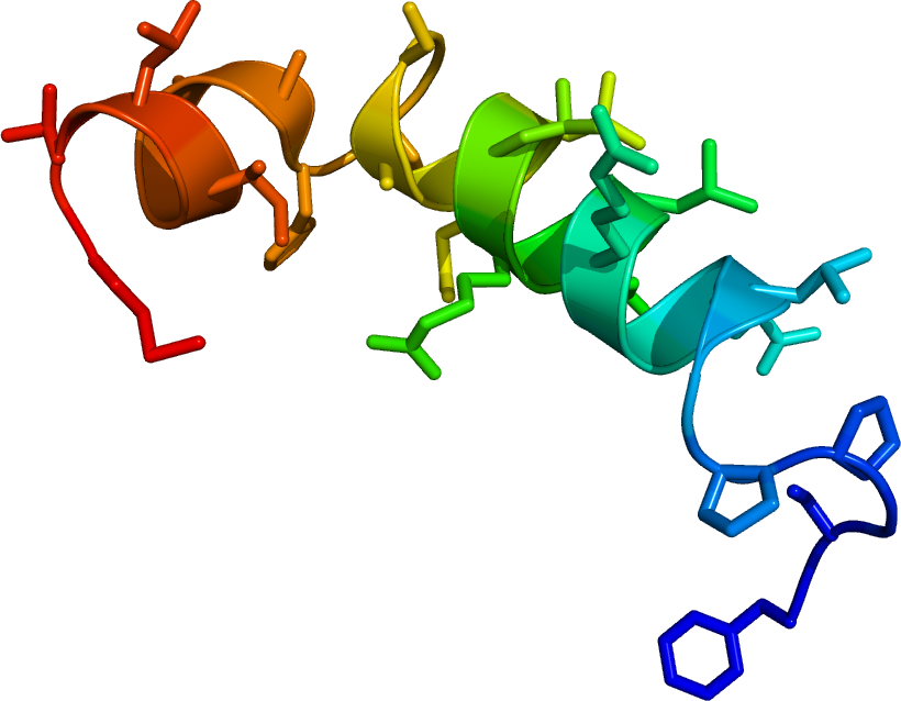 Solution phase NMR structure of orexin B based on the PDB coordinates 1CQ0. Created using PyMol based on the 1CQ0 crystallographic structure.